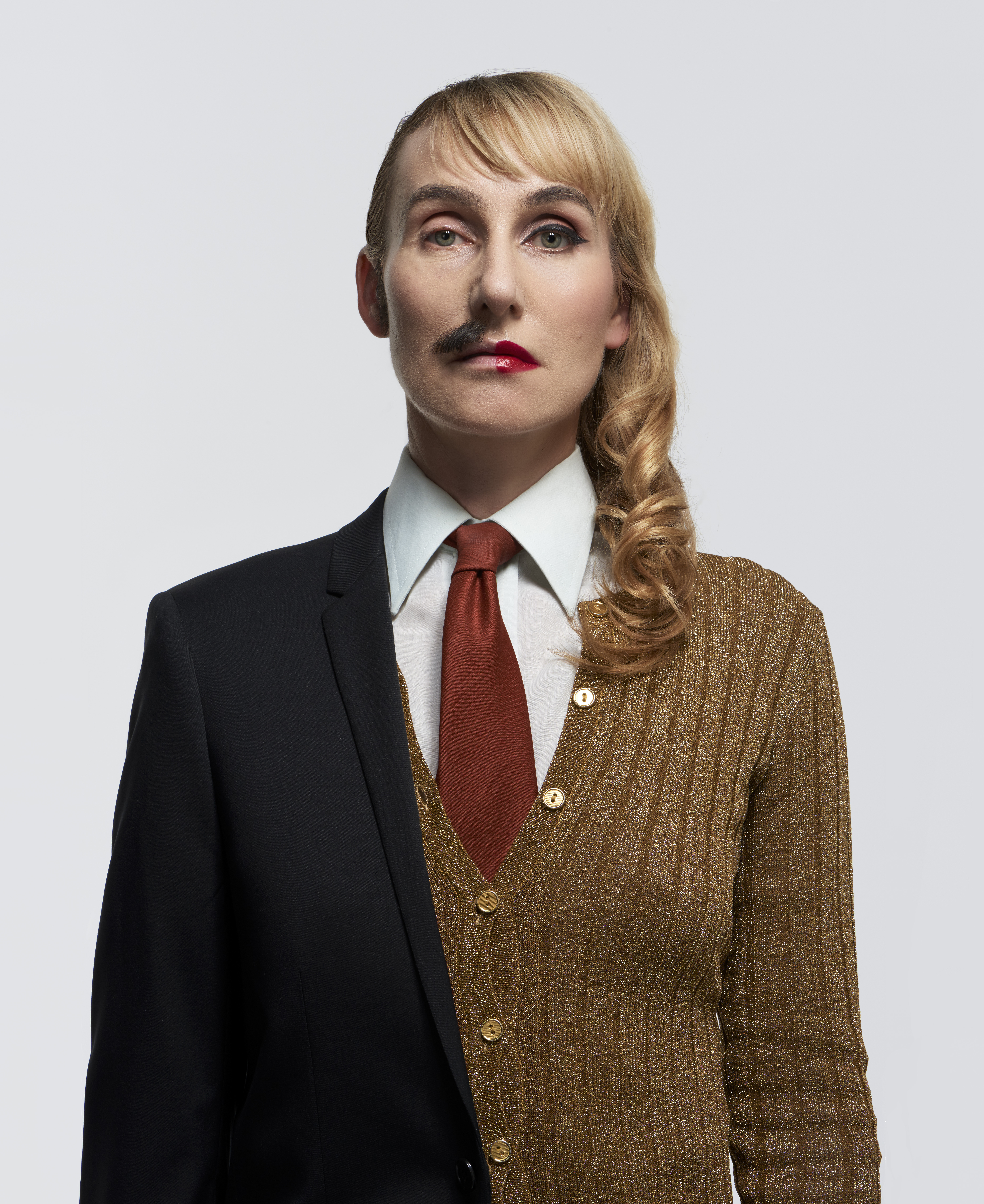 Mika Ela Fisher Männin photo by Andreas Licht